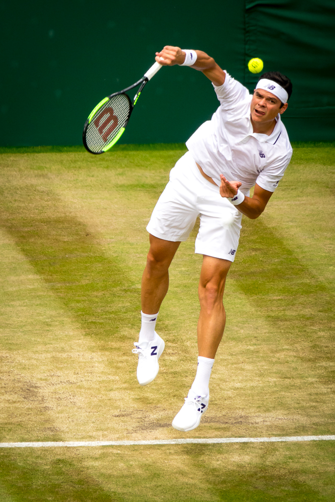 Raonic - Wimbledon 17